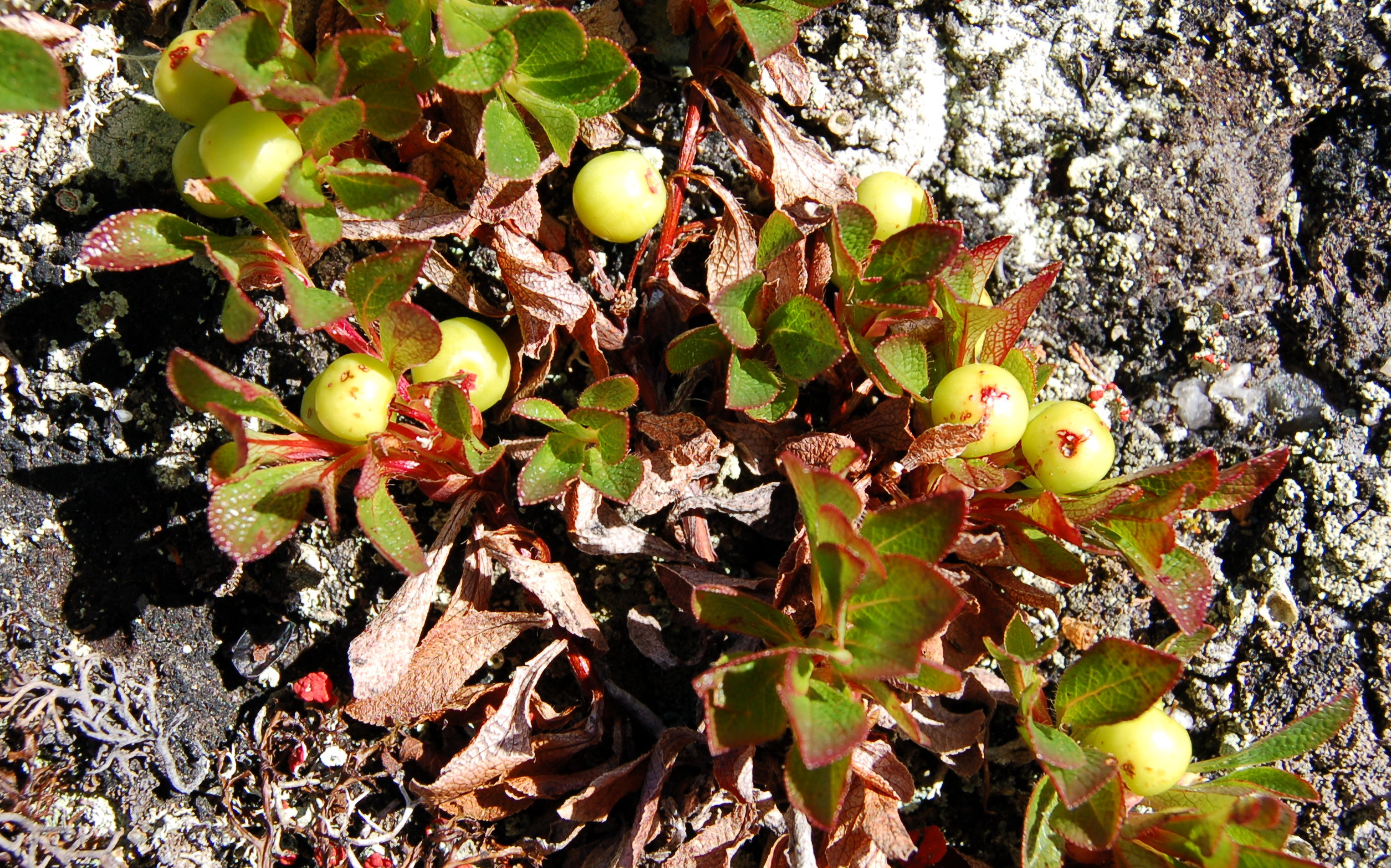 Alpine Bearberry, Mountain Bearberry, or Black Bearberry - Arctostaphylos alpina - early!